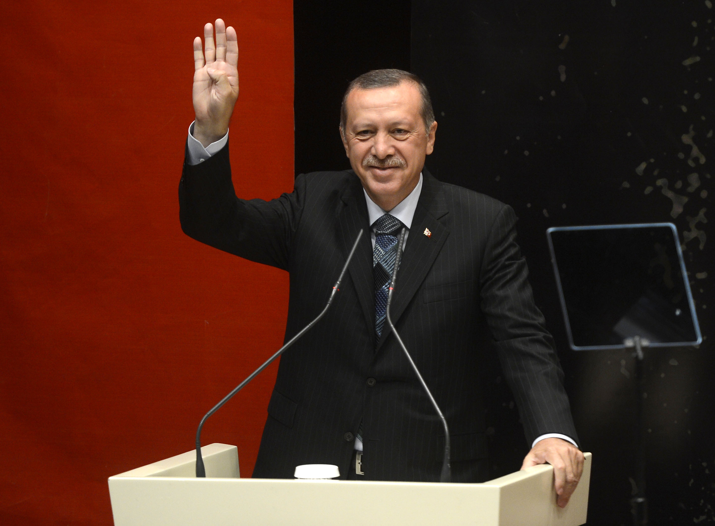 Turkish Prime Minister Recep Tayyip Erdoğan making the Rabia sign.